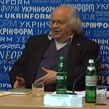 Ivan Drach, Ukrainian poet, translator, politician, Hero of Ukraine